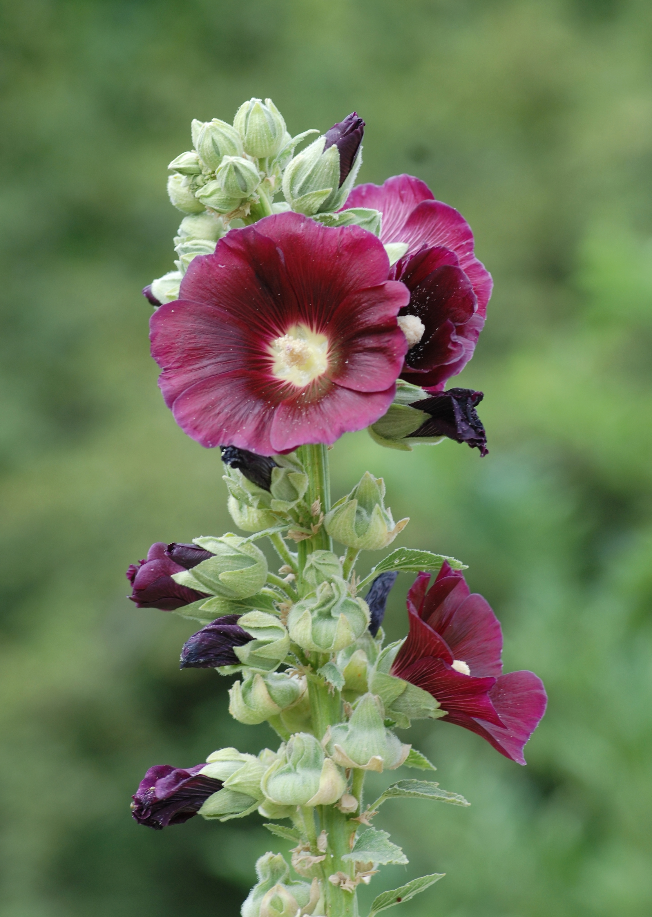 Alcea rosea at Jardin des Plantes, Paris